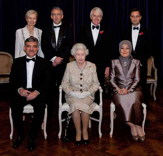 Official photograph: (from top left) Dr DeAnne Julius, Simon Henry, Sir John Major, President Gül, HM The Queen, Madame Gül